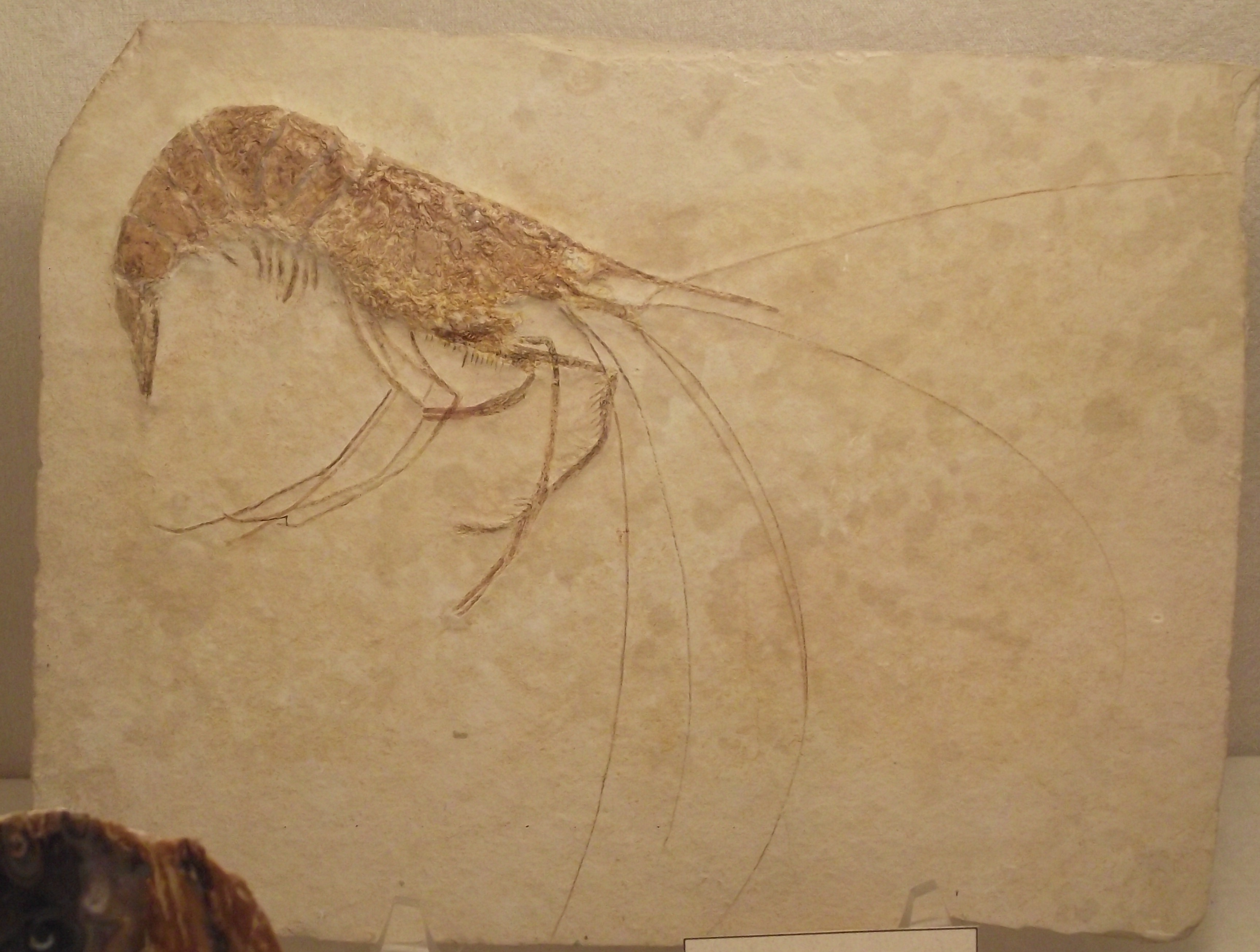 fossil shrimp from Solnhofen on display at the San Diego County Fair, California, USA.